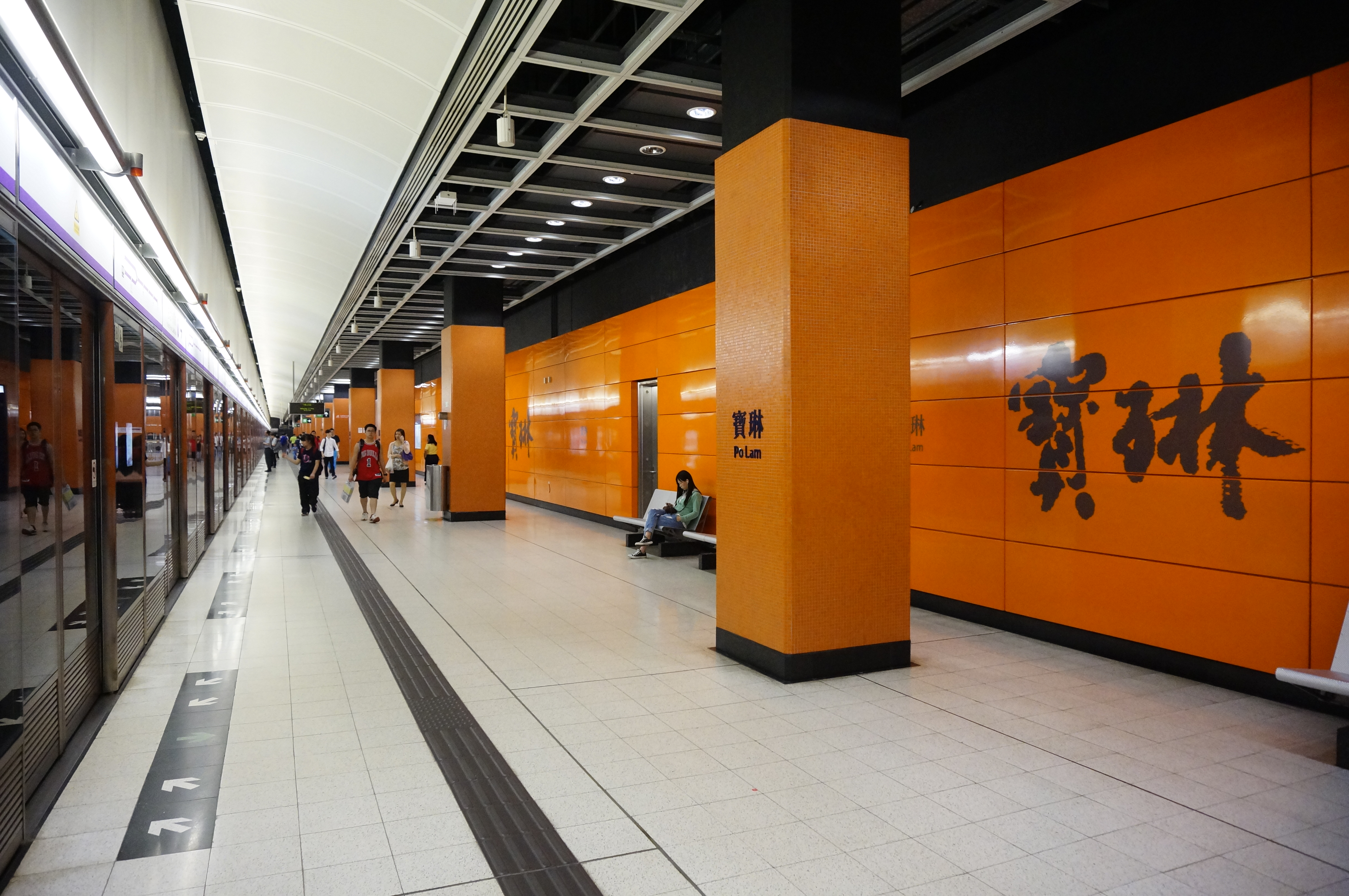 Po Lam Station